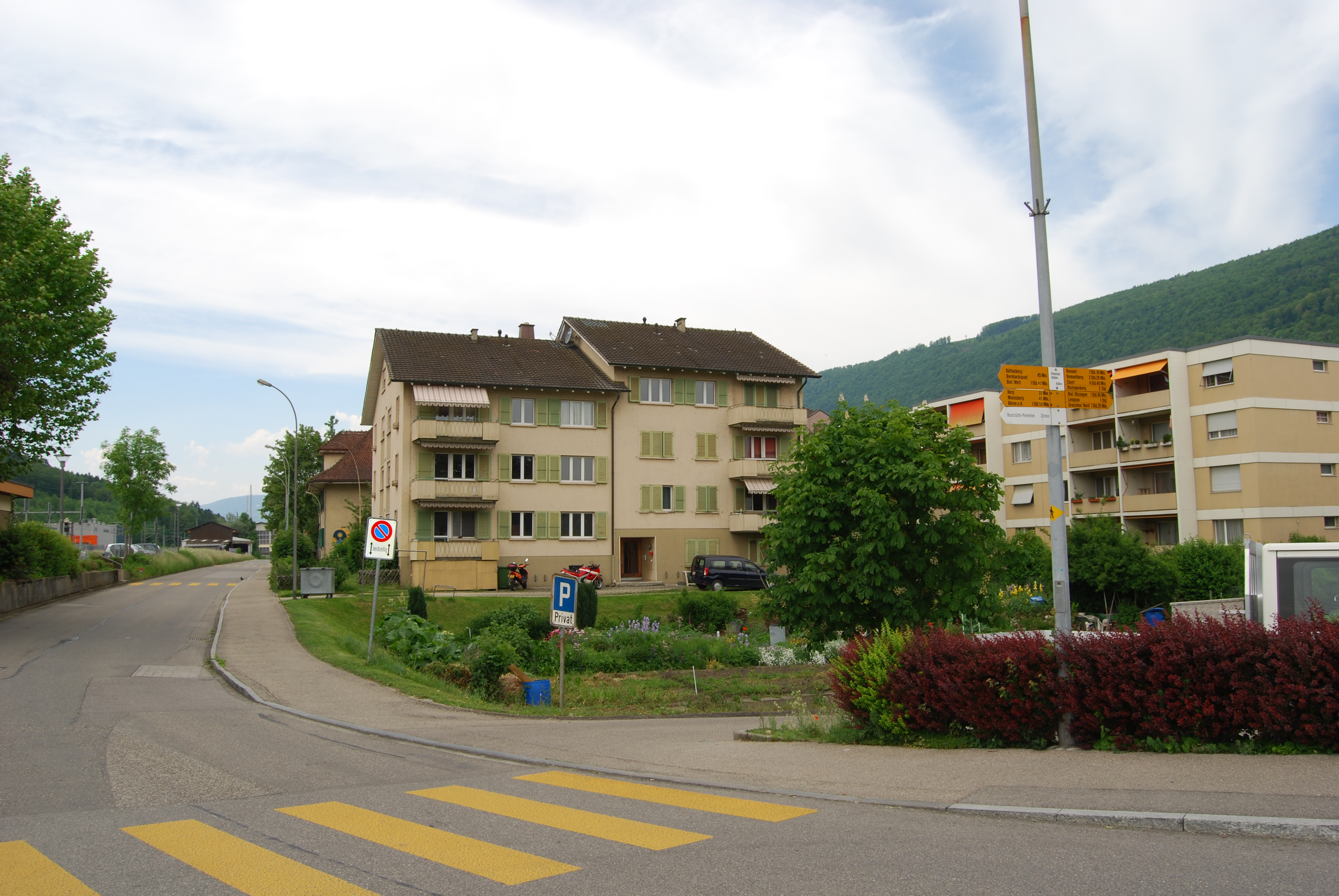 Pieterlen, canton of Bern, SwitzerlandEsperanto: Pieterlen, Kantono Berno, Svislando